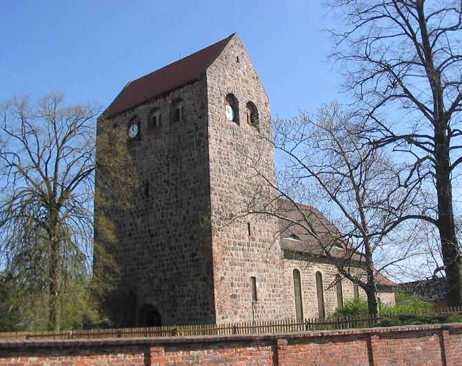 Stone church Reetz, built in the middle of 13th century. The village Reetz is a part of the municipality Wiesenburg (Mark) in the district Potsdam Mittelmark, state Brandenburg, Germany. Wiesenburg appertains to the Nature park „Hoher Fläming“.